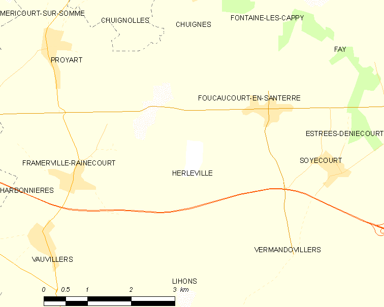 Map of French municipality Herleville